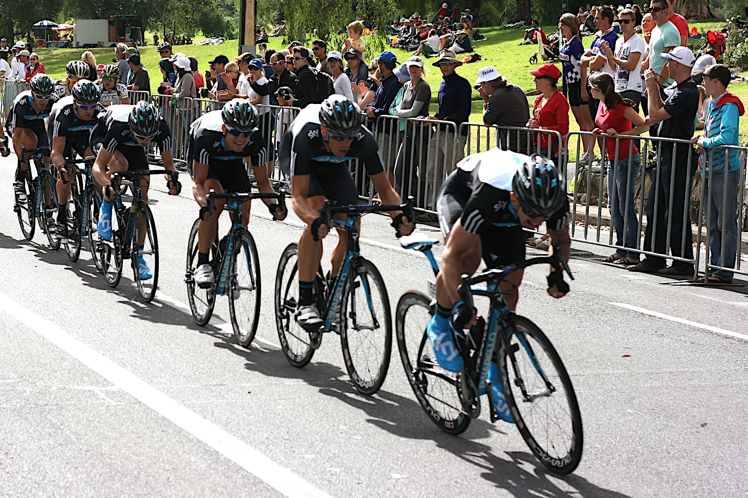 Team Sky leading out in the final laps of the Cancer Council Helpline Classic 2010, the prelude to the Tour Down Under.